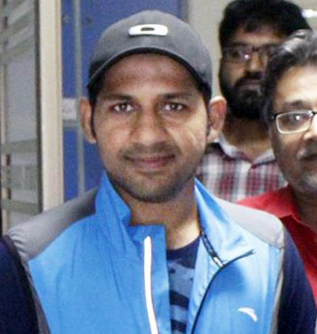 shahzeb baig with cricketer sarfaraz ahmed and others at Daily dunya khi office